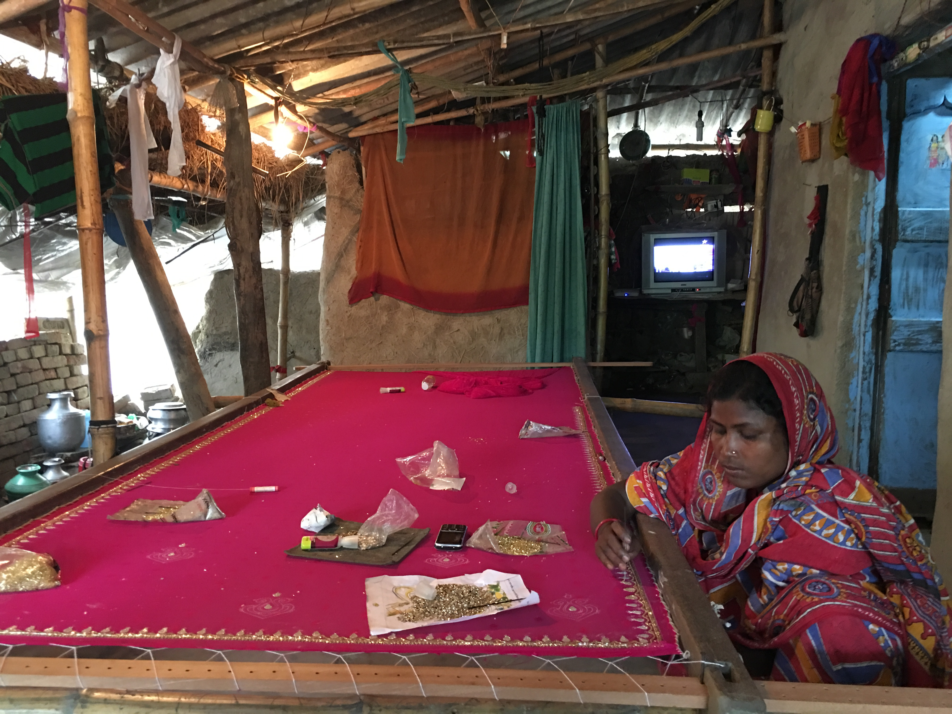 Nayantara a survivor on whom part of the missing story is based